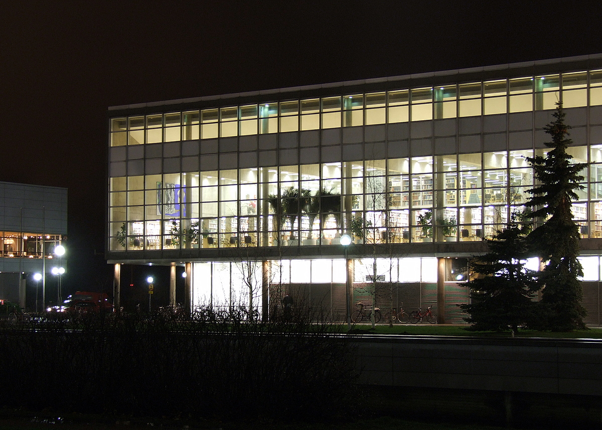 The main municipal library of Oulu, Finland. The building was designed by architects Marjatta and Martti Jaatinen and it was completed in 1982.